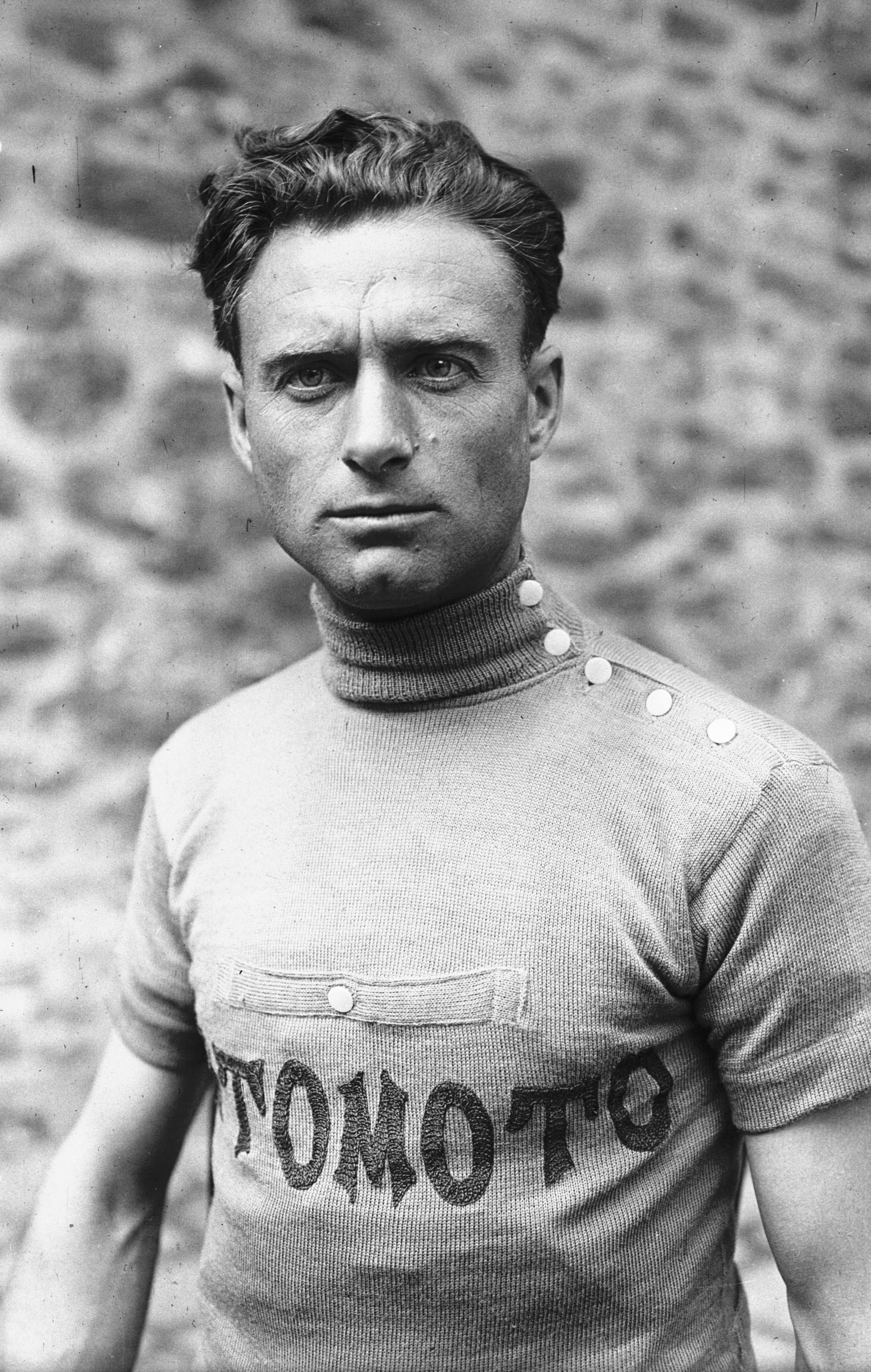 Picture of Angelo Gremo